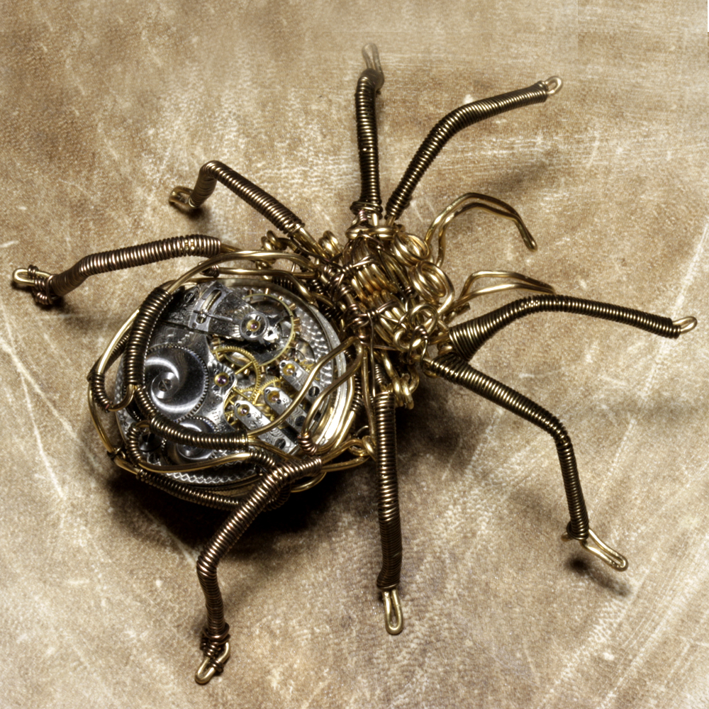 Steampunk Clockwork Spider Brass and Copper Wire Sculpture made by Daniel Proulx A.K.A : CatherinetteRings, Steampunk jewelry designer and sculptor